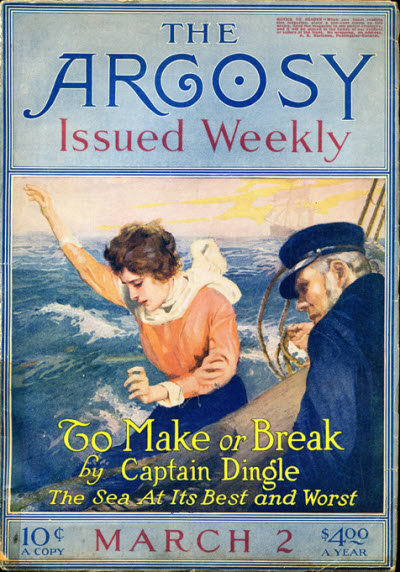 The Argosy, March 2, 1918